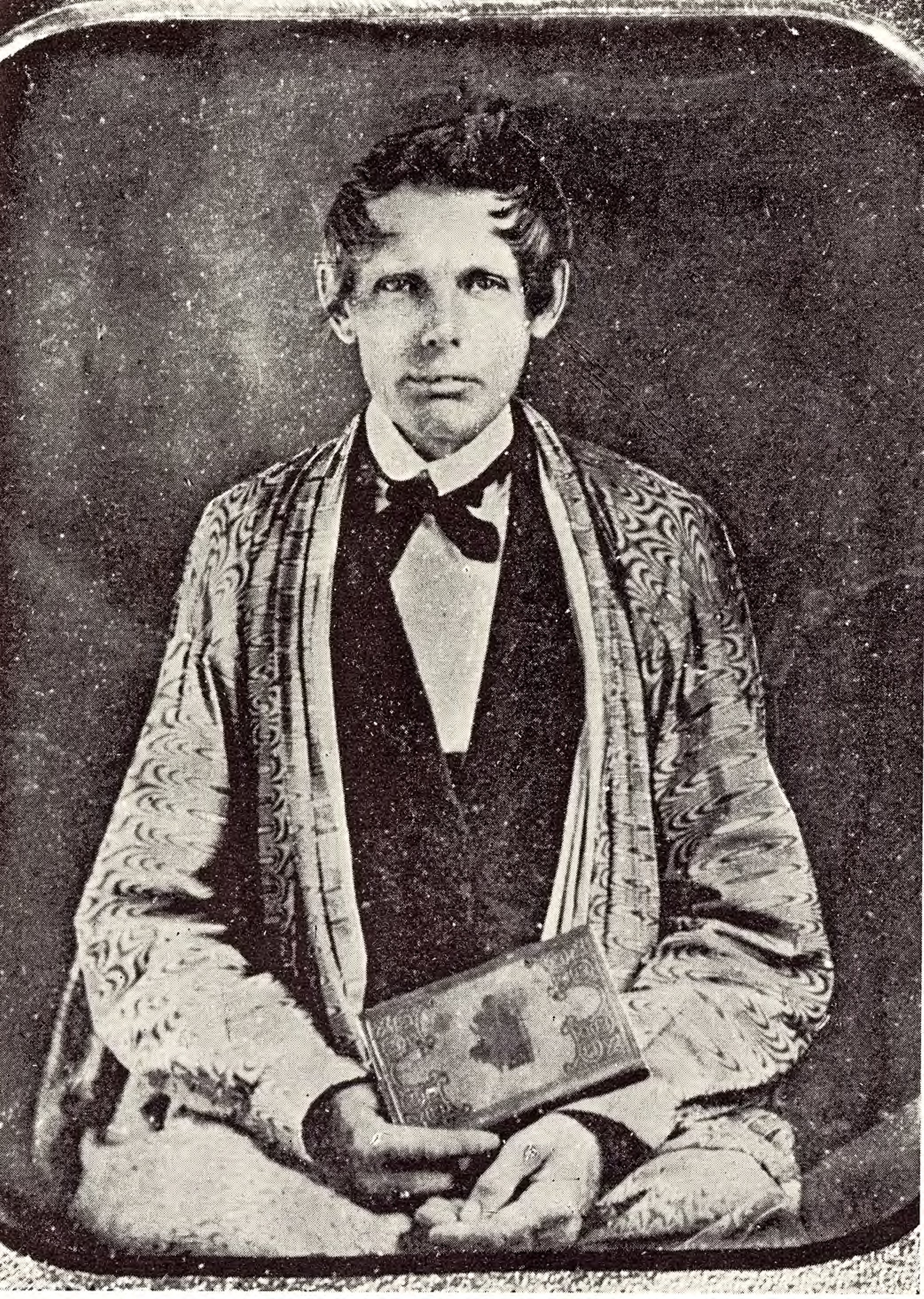 a photocopy of Samuel Worcester from New Echota Historical Site with a permission